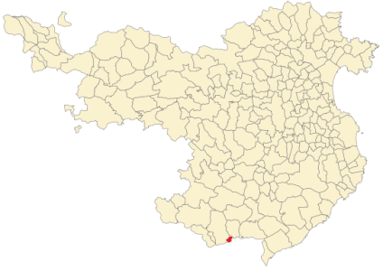 Hostalric